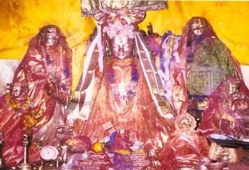 Saligram - Mukthinath Sri Murthy Swamy and Sri Devi Thayaar